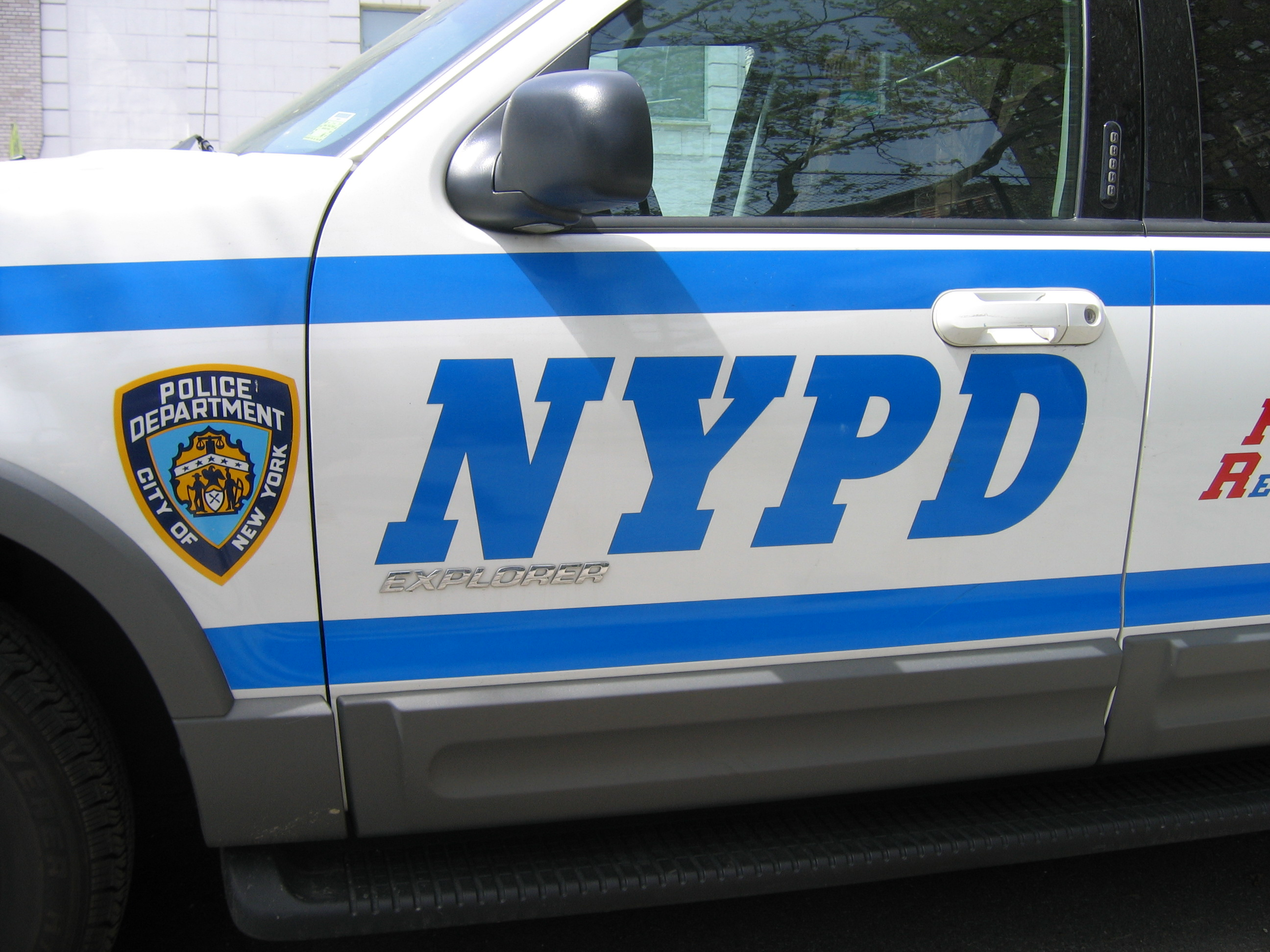 Side door of police car of the New York Police Department (NYPD).